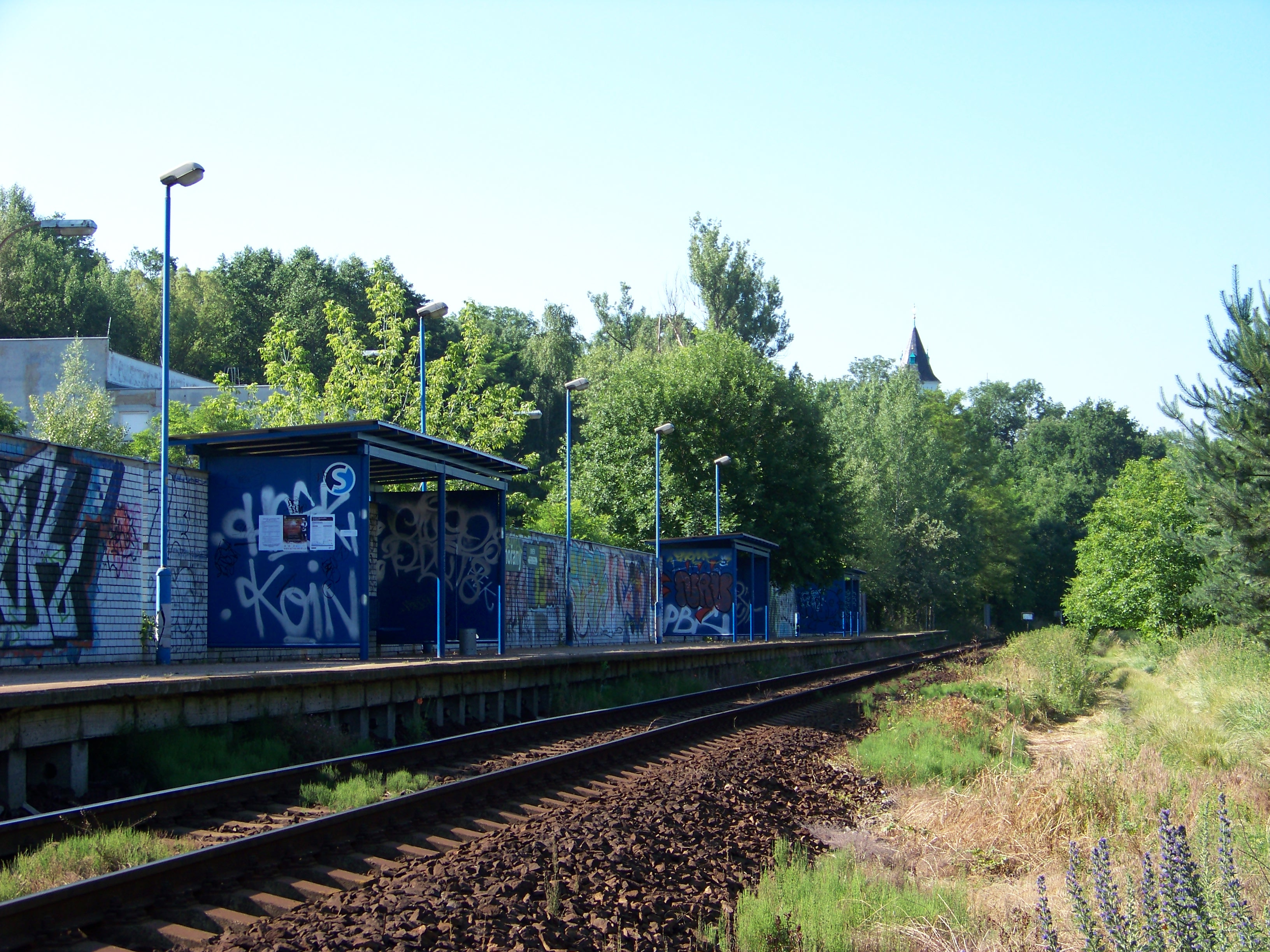 Prague-Komořany, Czech Republic. Train stop Praha-Komořany.